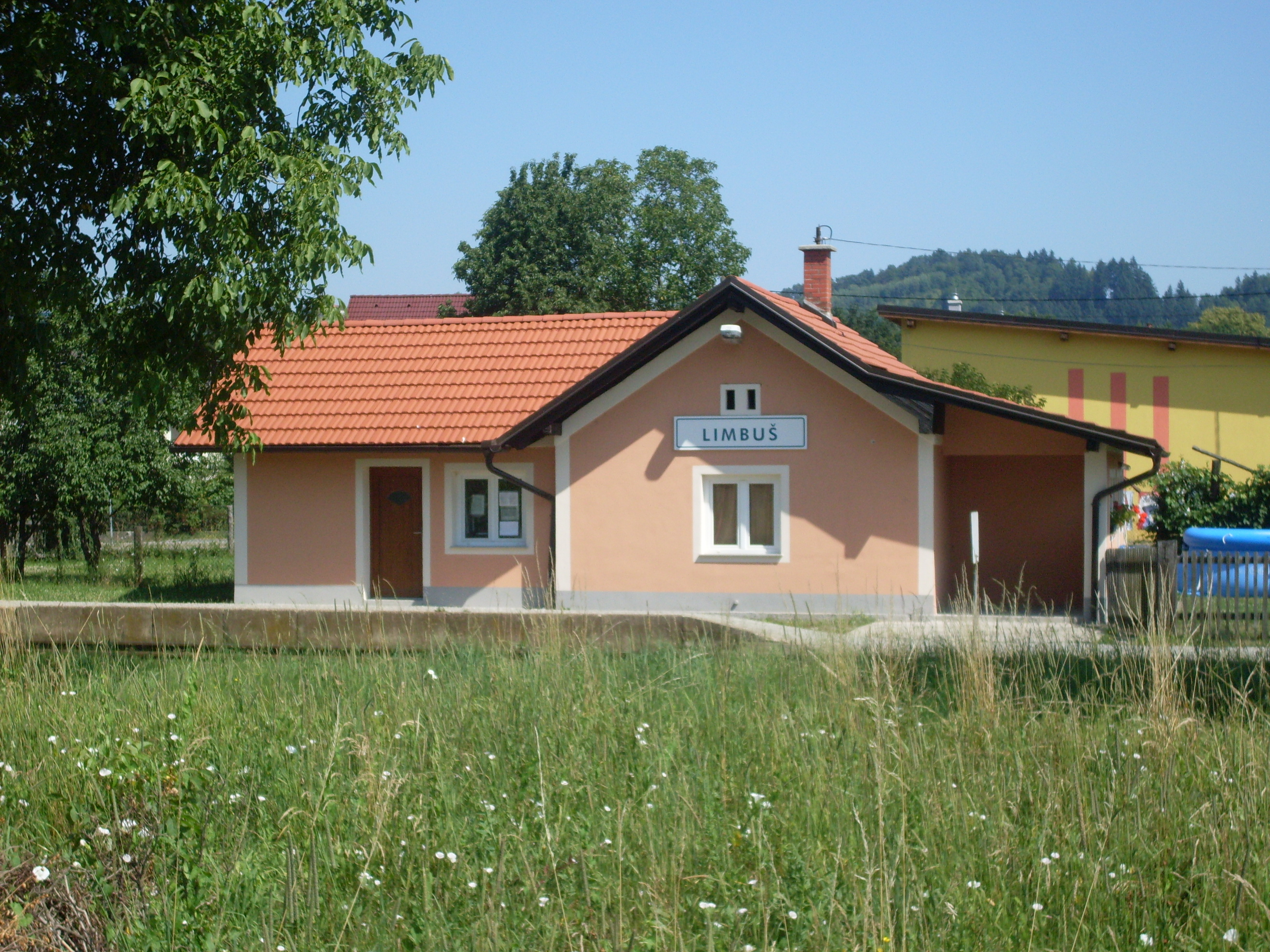 Railway halt in Limbuš